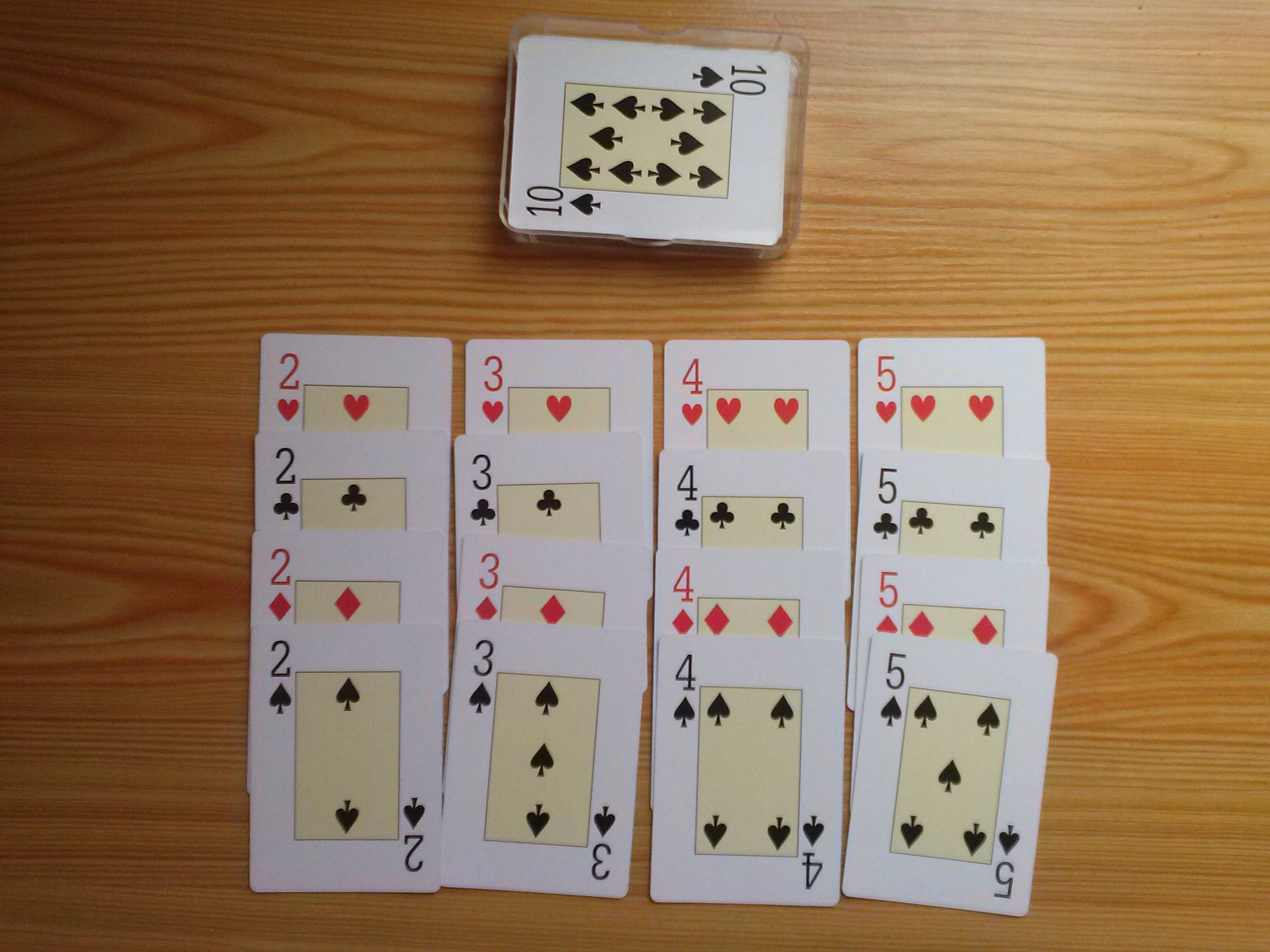 In the picture we see various cards ordened from two to five in a standar english deck as well as the deck where it has been taken. They are ordered for suits and from low to high.